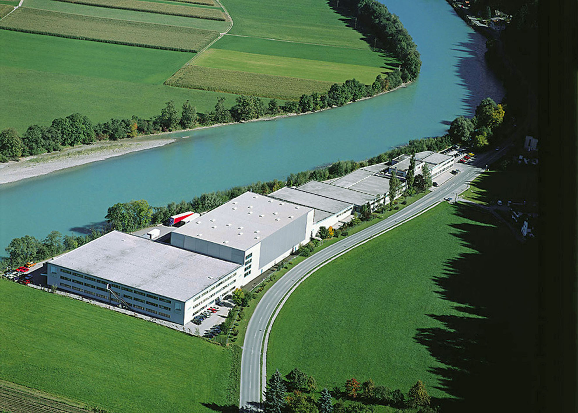 EGLO Headquarters 2009